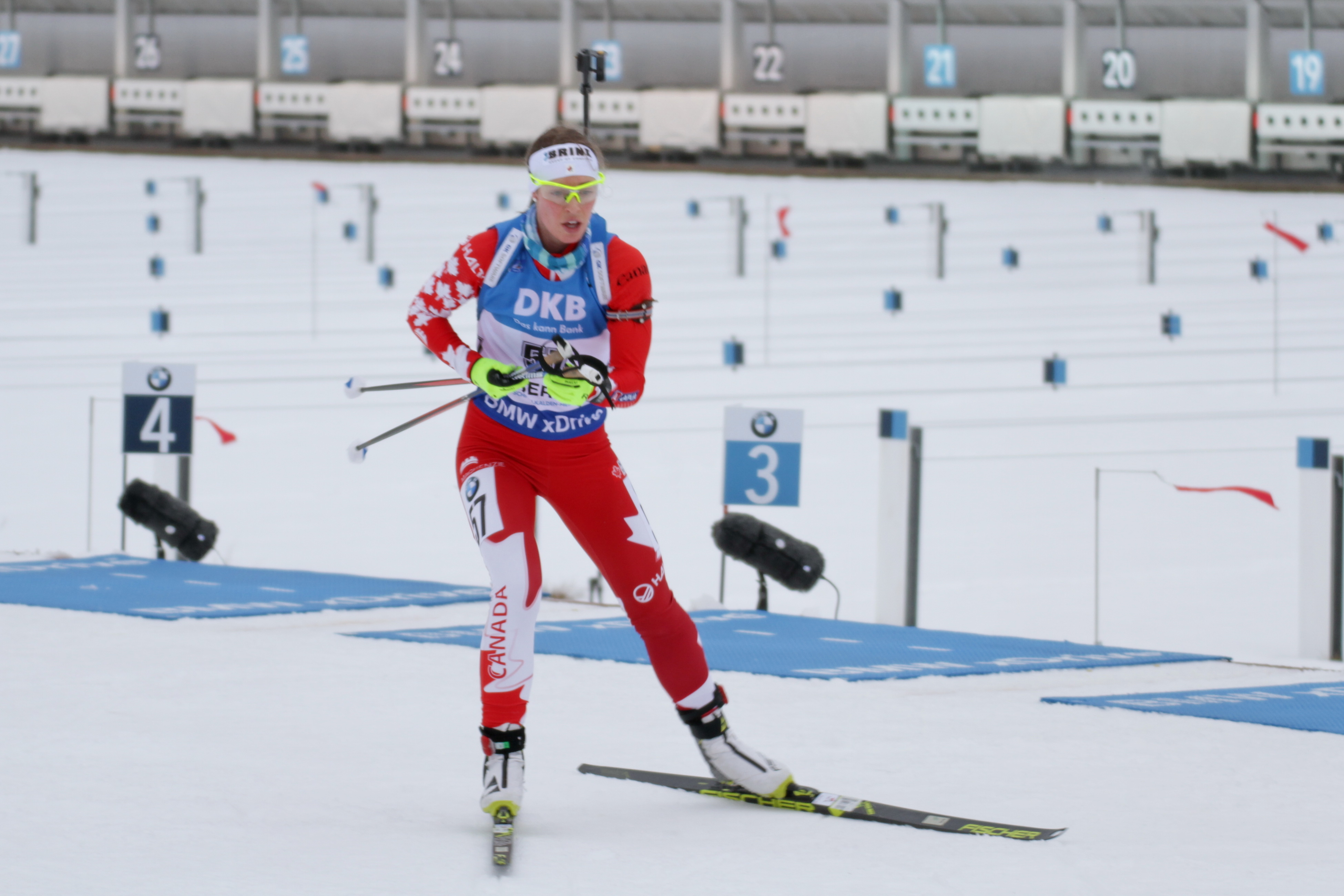 2018 Oberhof Biathlon World Cup - Sprint Women